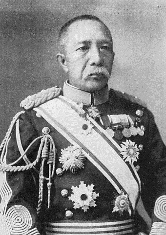 Nobuyoshi Yamanaka